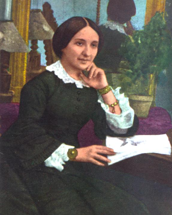 Antonia María de Oviedo y Schönthal (1822-1898), 'La Madre Antonia'.